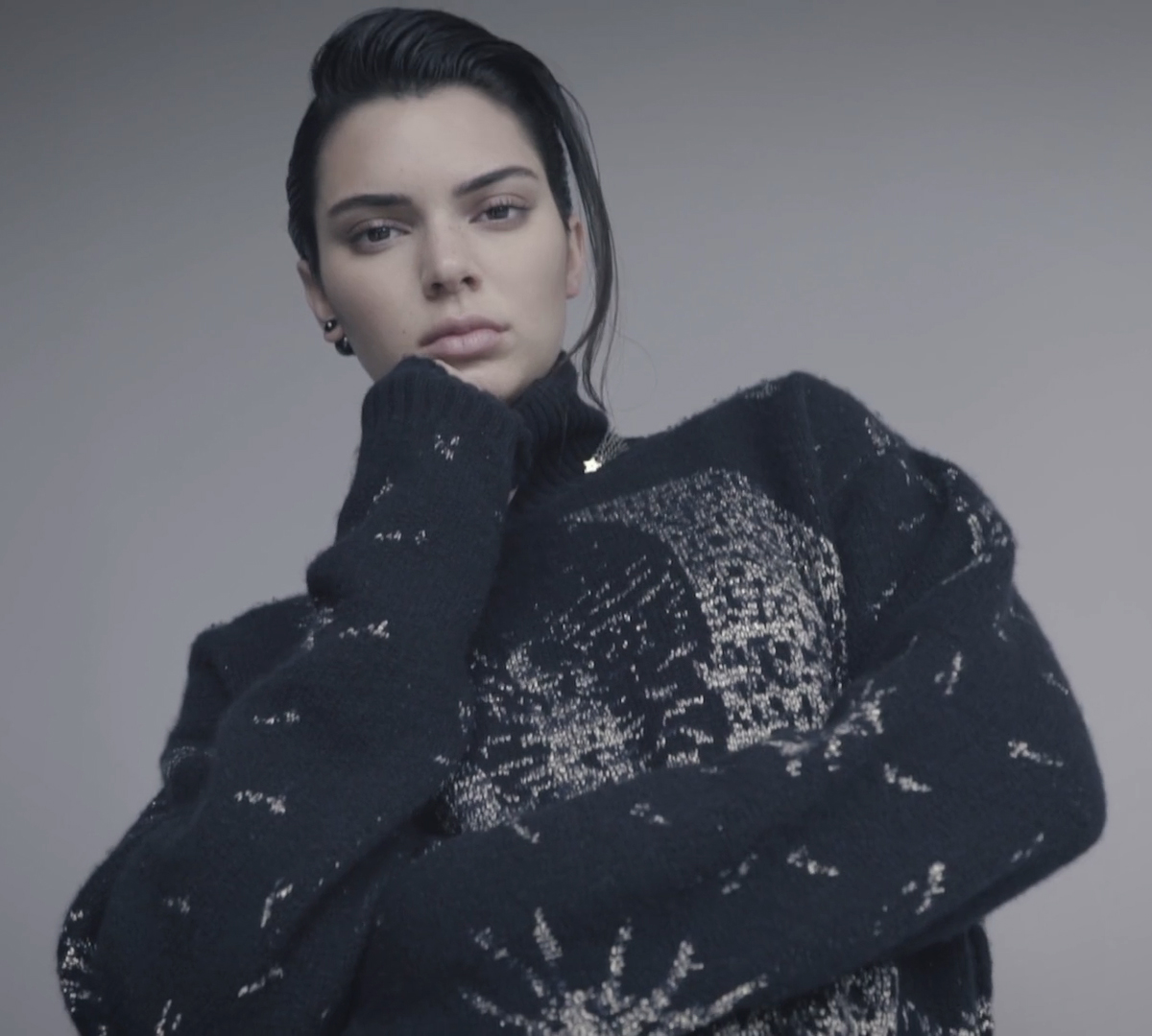 An intimate portarit of the Muse Kendall Jenner for the Magazine WKorea in New York